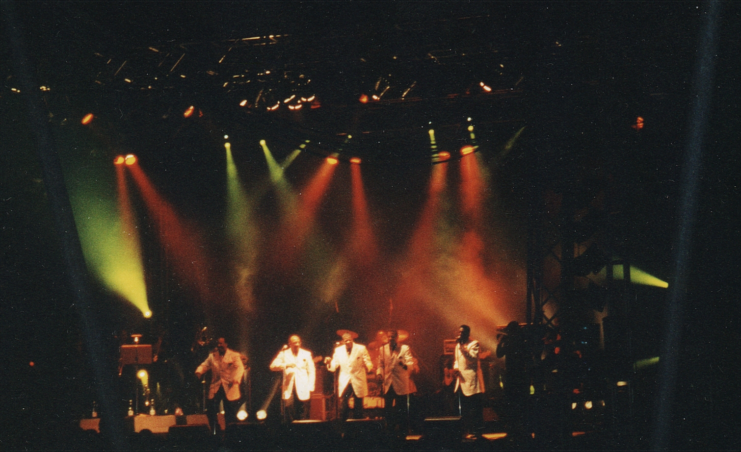 The Temptations during Gurtenfestival 2000 (Bern/Switzerland)